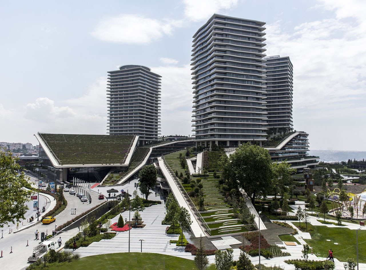 The Zorlu Center is at the junction of the Bosphorus Bridge European connection and the Büyükdere axis that connects the city center with the business district Maslak. With its easy access from important centers of Istanbul, it is also one of the few sites that face south, with the old city view making it a ‘subject of desire’ and was owned by the Zorlu Property through a tender, being curiously watched by the public. The mixed use project being developed on this area deals with contradictions such as grandeur and modesty, public and private, institutional and domestic, social and distinguished, together with structural and topographical considerations.